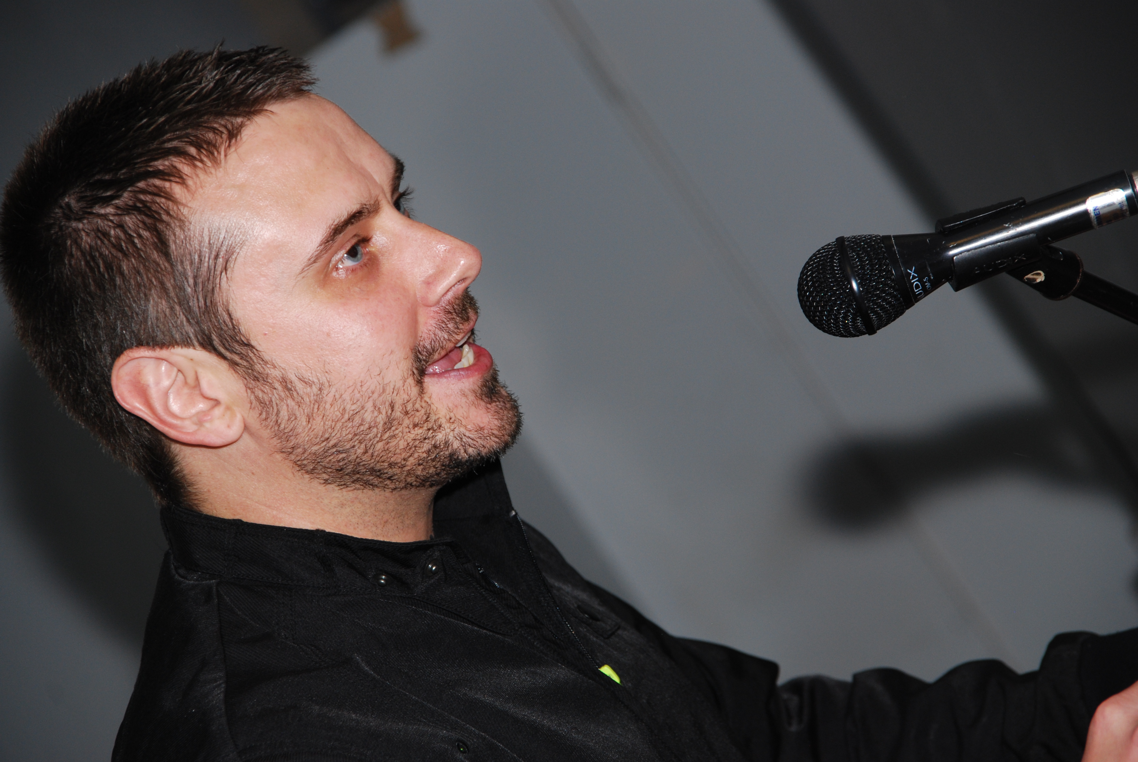 Journalist Jeremy Scahill speaking at anti-war activist David McReynold's 80th birthday party.